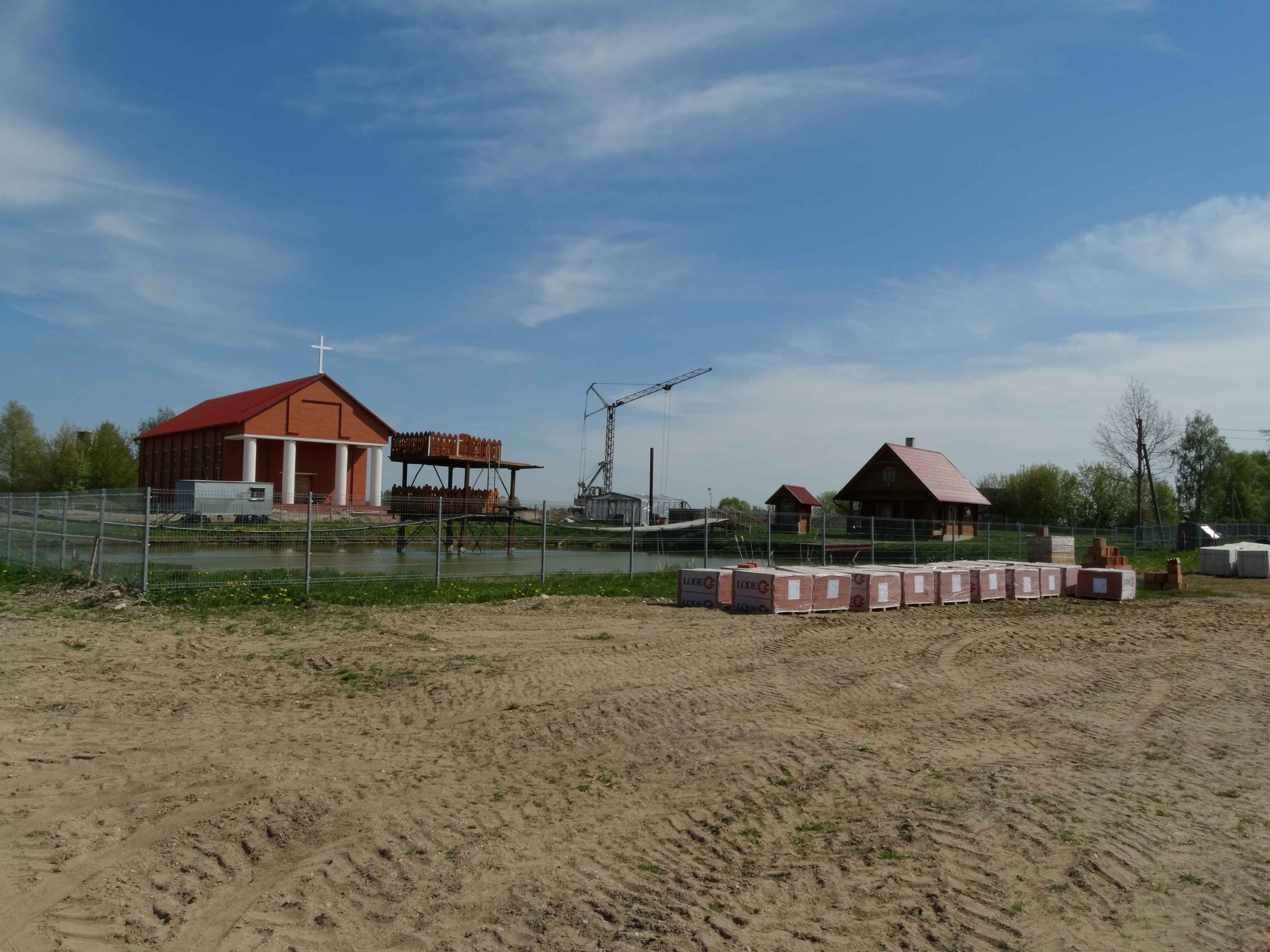 Church in Rokoniai, Radviliškis District, Lithuania